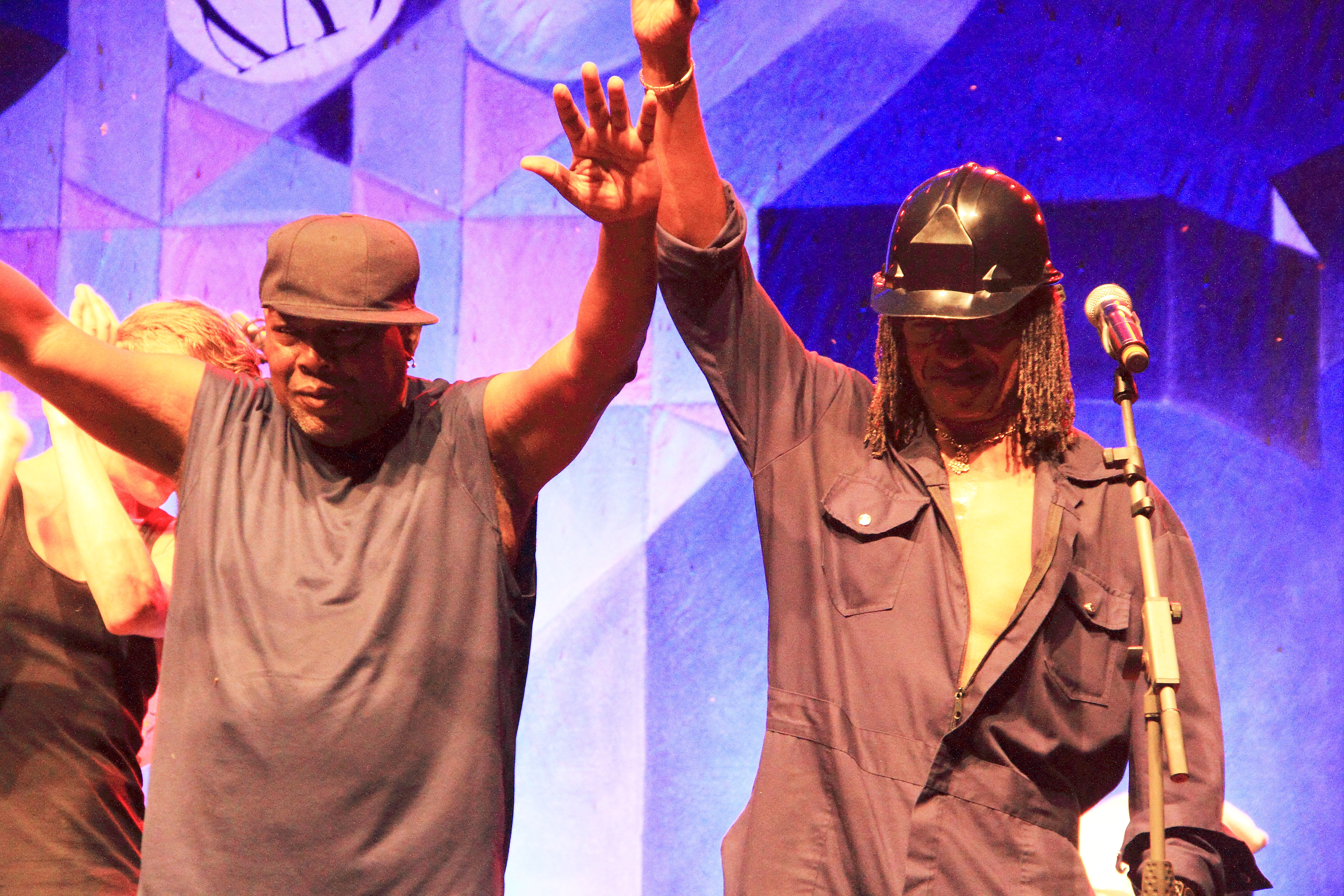 Sly (Dunbar) with Robbie (Shakespeare) and Nils Petter Molvær at TFF Rudolstadt, 2015.